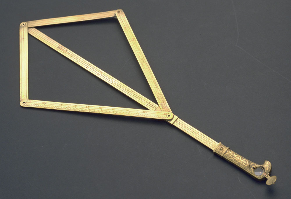 ArtistUnknownAuthorLatino OrsiniDescription